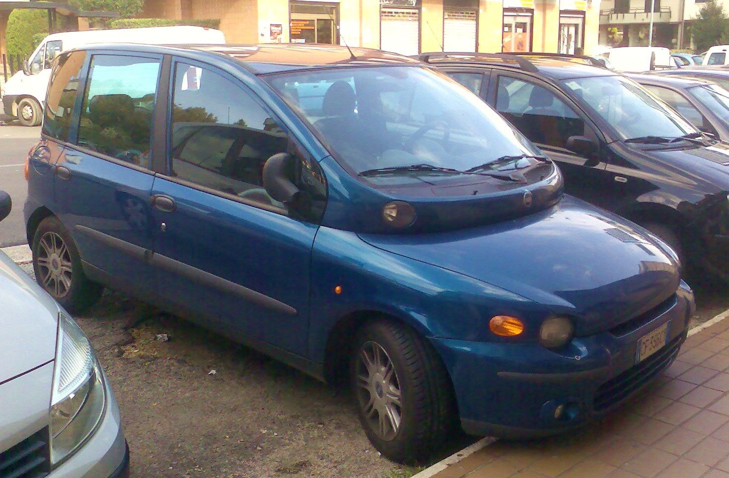 Fiat Multipla